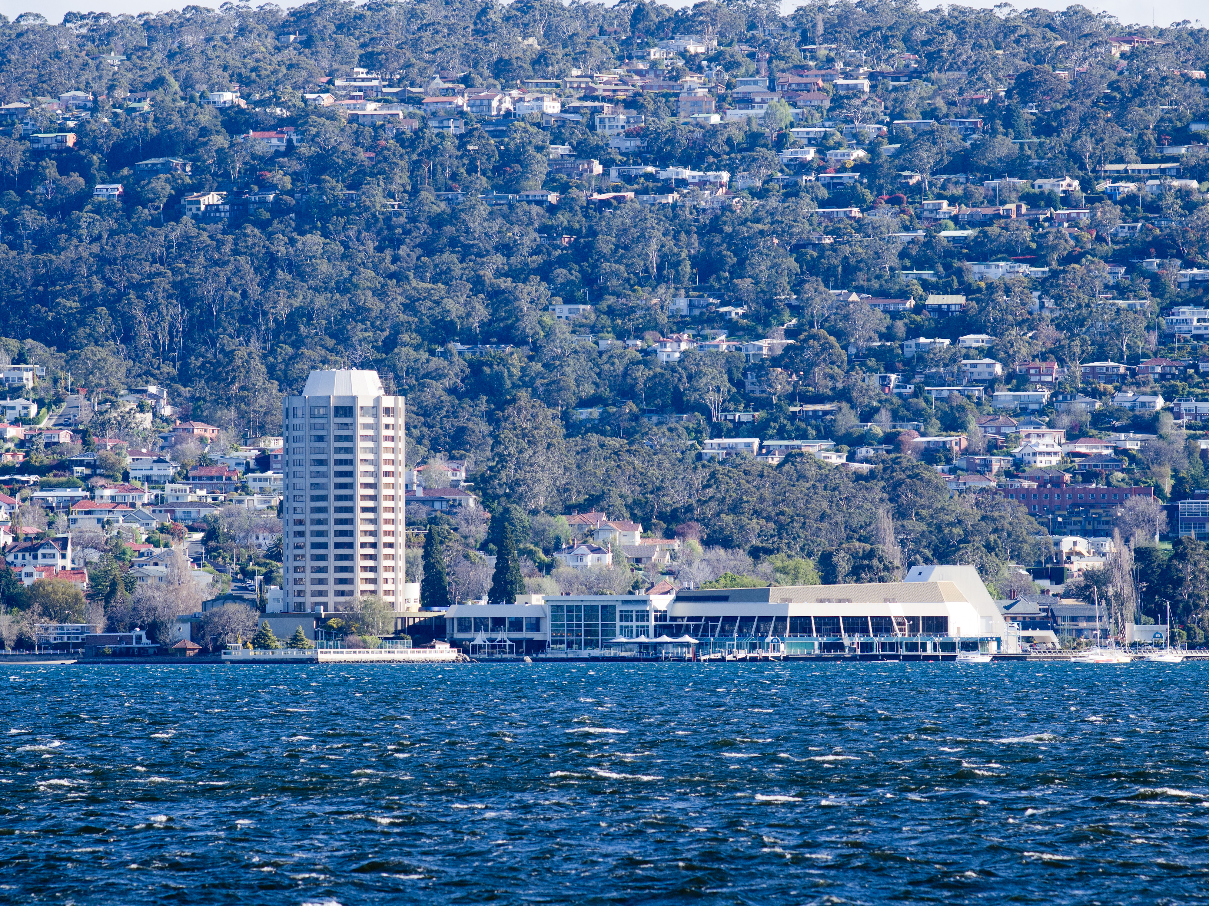 The Wrest Point Hotel Casino is located in Sandy Bay, Hobart, along the western shore of the Derwent River.